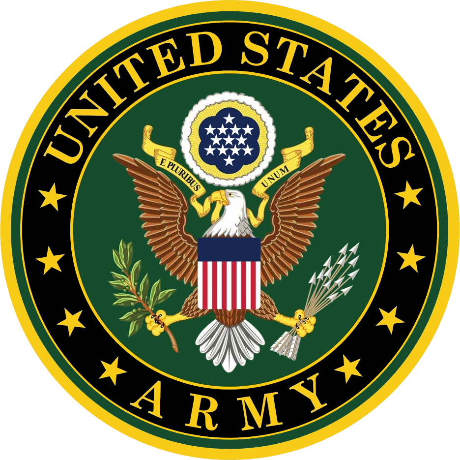 Service mark of the US Army